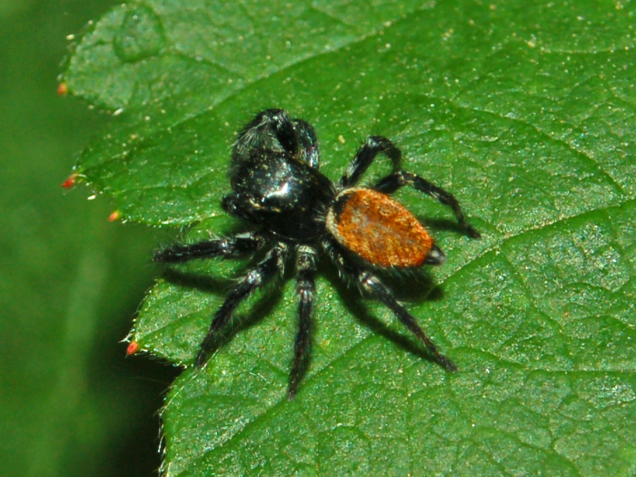 Carrhotus xanthogramma - male in Cerreto Ratti, Alessandria, Italy